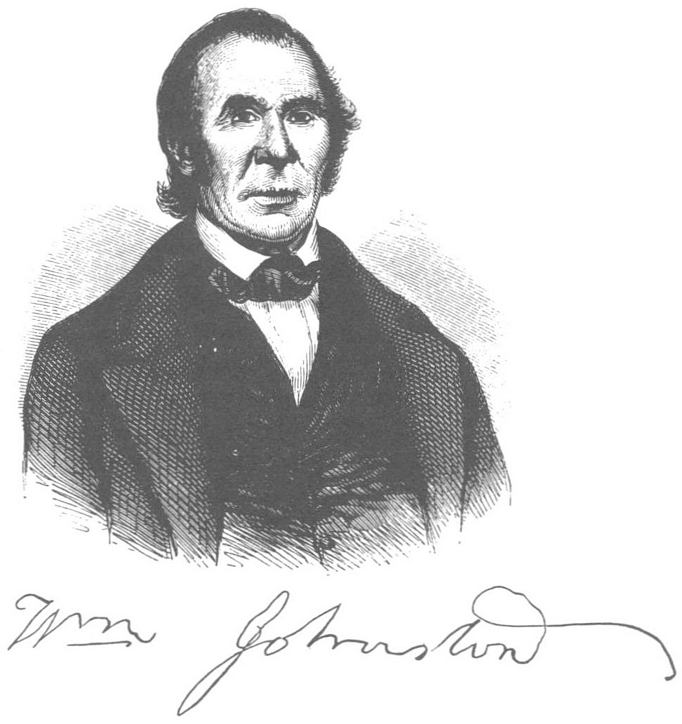 Portrait of William "Pirate Bill" Johnston, circa 1840